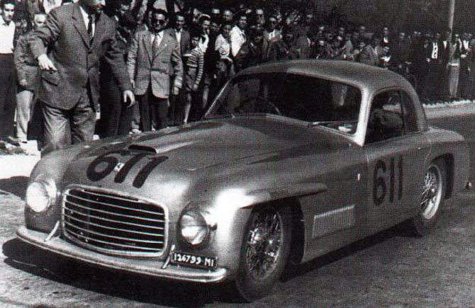 Ferrari 166 S #003S in Mille Miglia on 24 April 1949, which it did not finish. Drivers in this picture are Giampiero Bianchetti and Giulio Sala.[1] The car in this picture has been slightly altered (in its front) and repainted silver after a crash in the fall of 1948. It was later crashed again and totally rebodied by Colli.